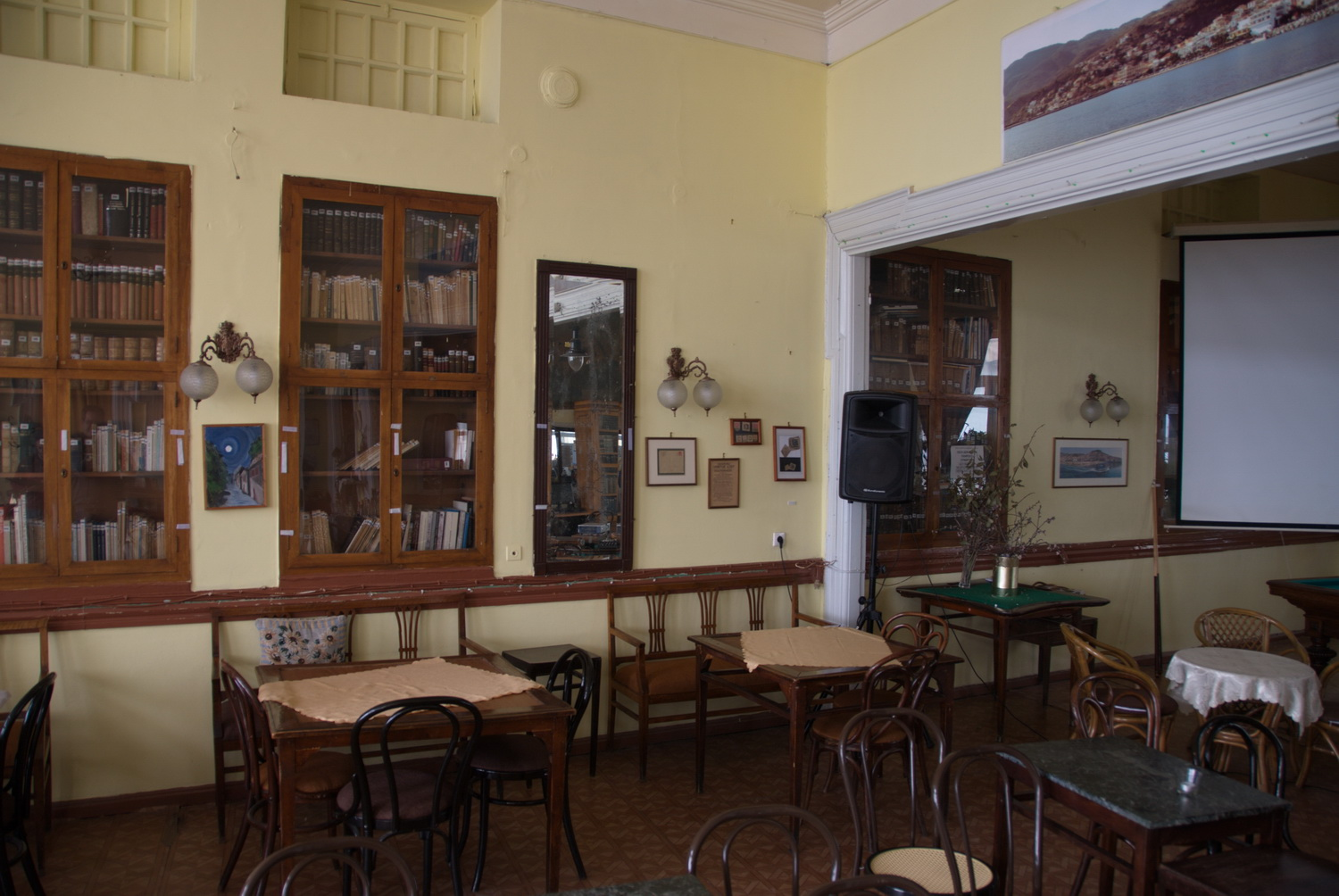 Veniamin Lesvios club building